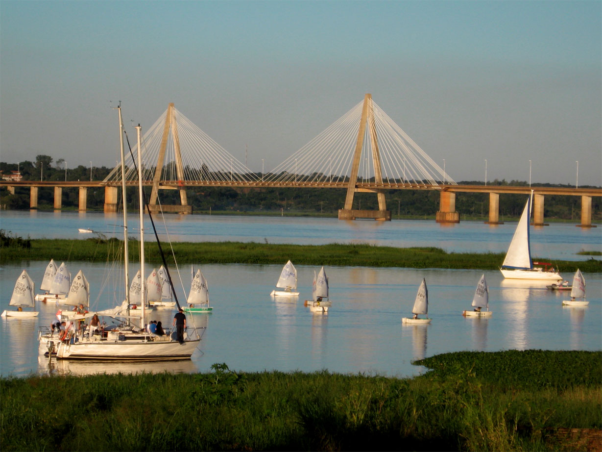 San Roque González de Santa Cruz Bridge, over the Paraná River, linking the Argentine city of Posadas with the Paraguayan city of Encarnación.